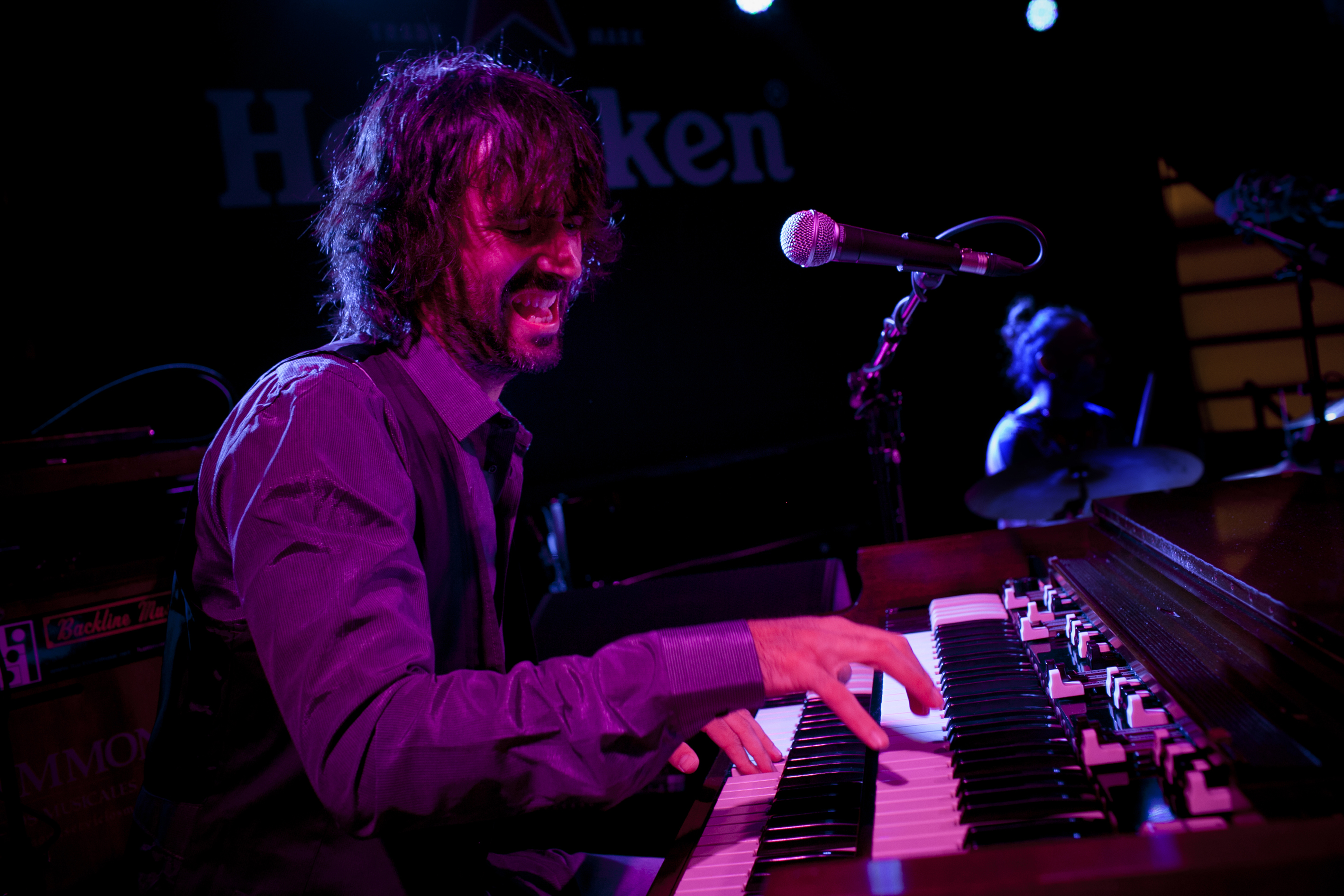 Mikel Azpiroz in concert.